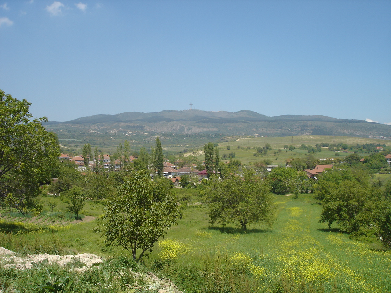 Surrounding of the village of Dobri Dol, near Skopje, Macedonia